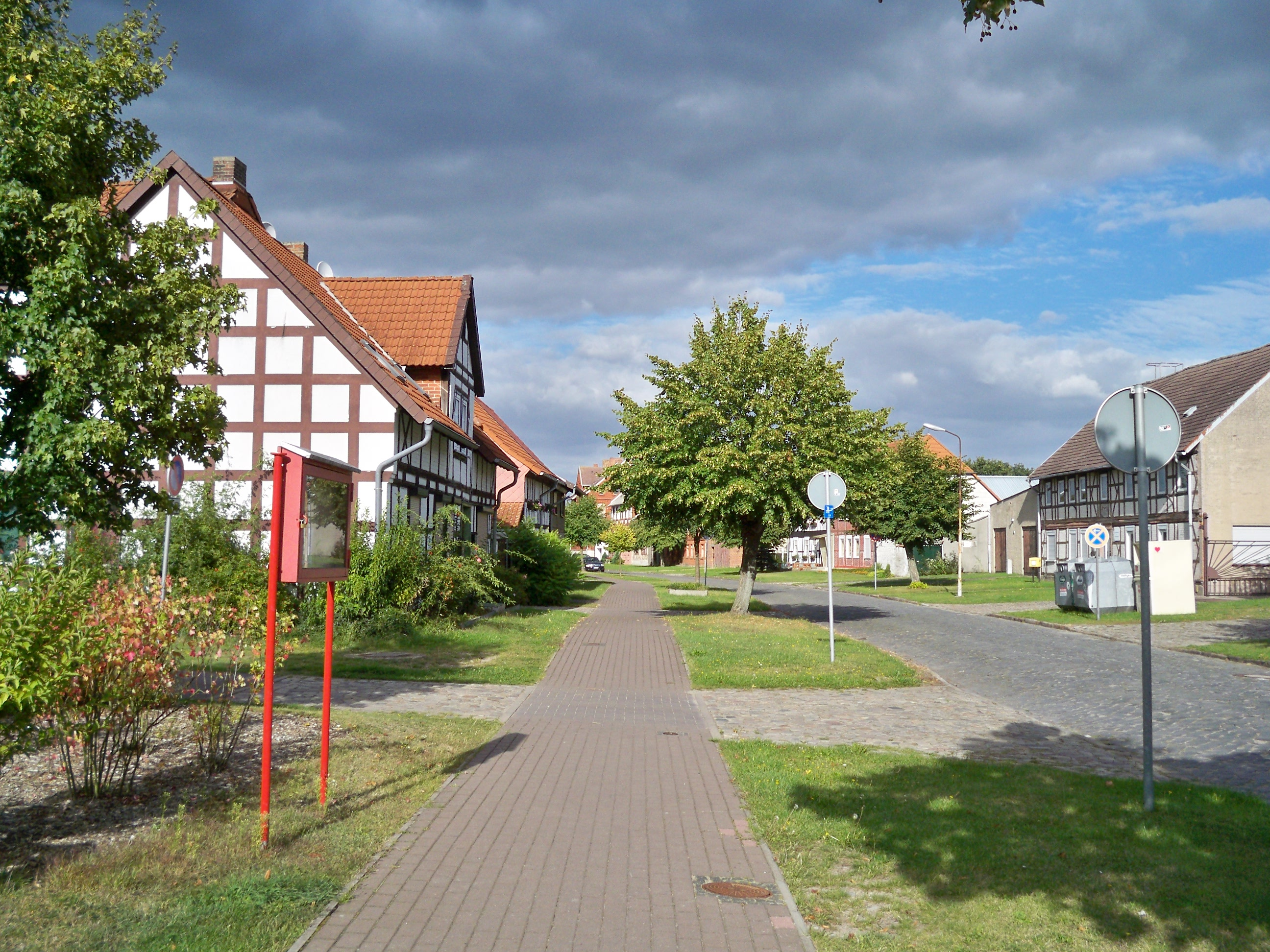 Weddendorf, Oebisfelde-Weferlingen, Saxony-Anhalt